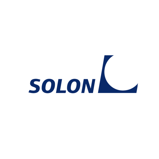 Solon SE